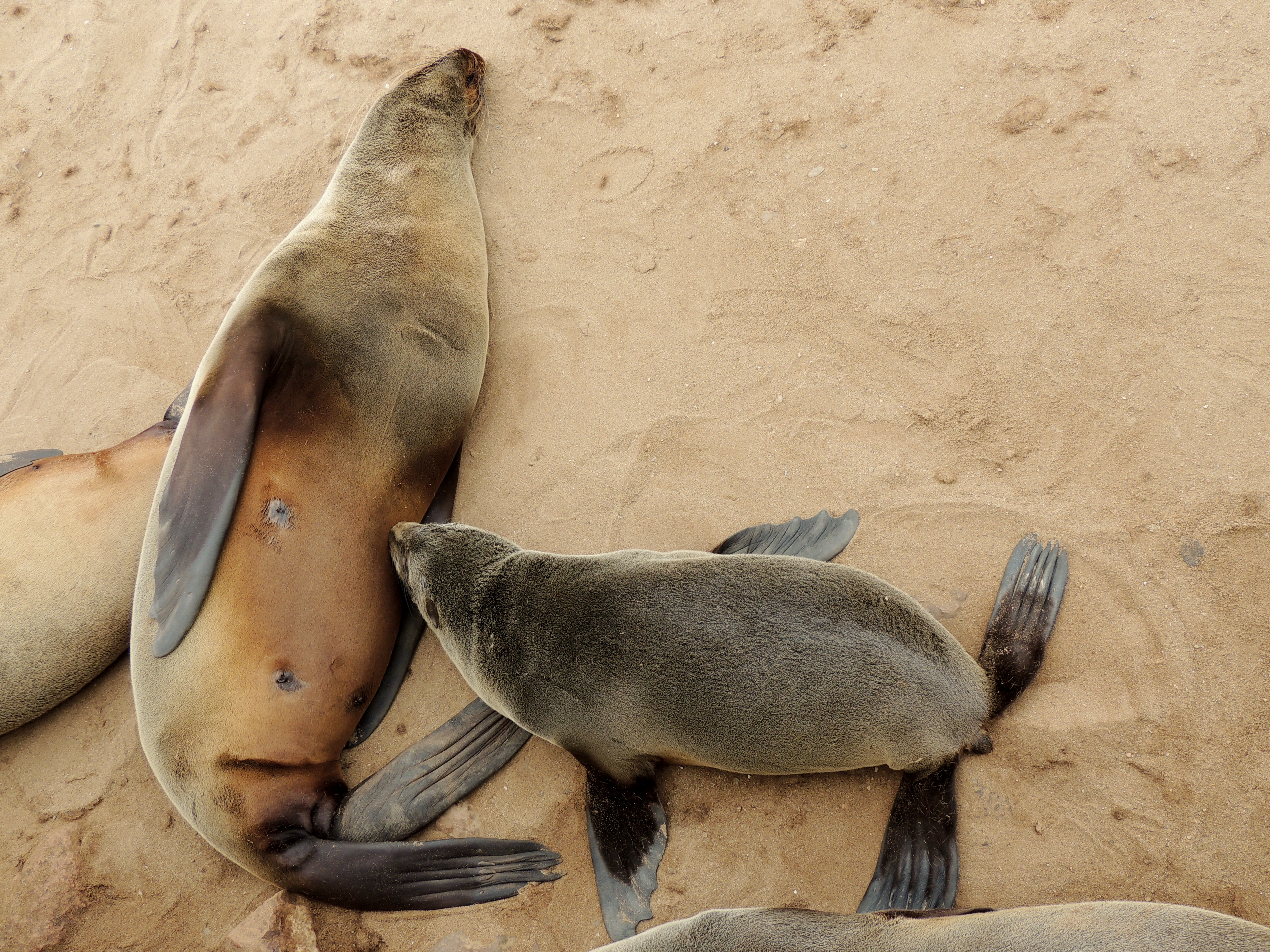 Arctocephalus pusillus 3 - Cape fur seal